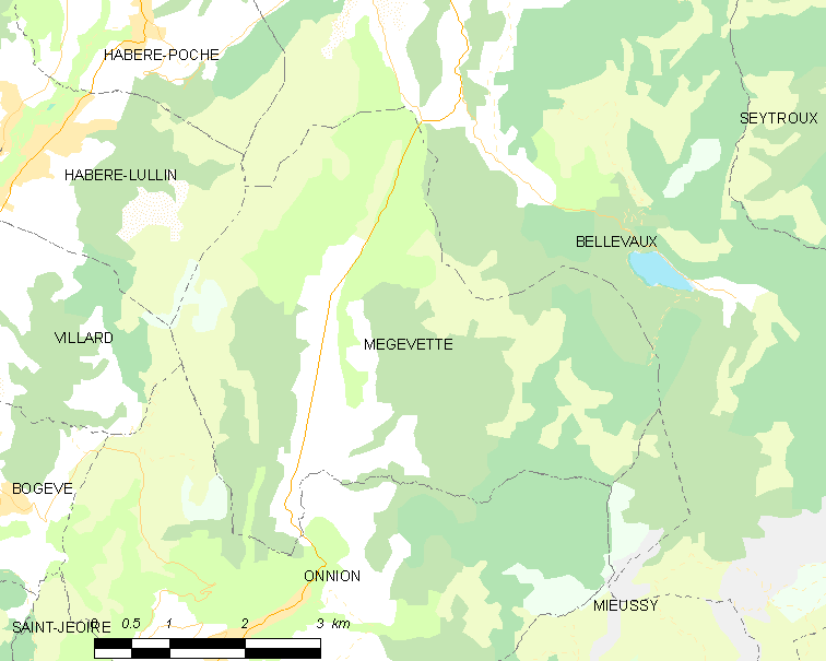 Map of French municipality Mégevette